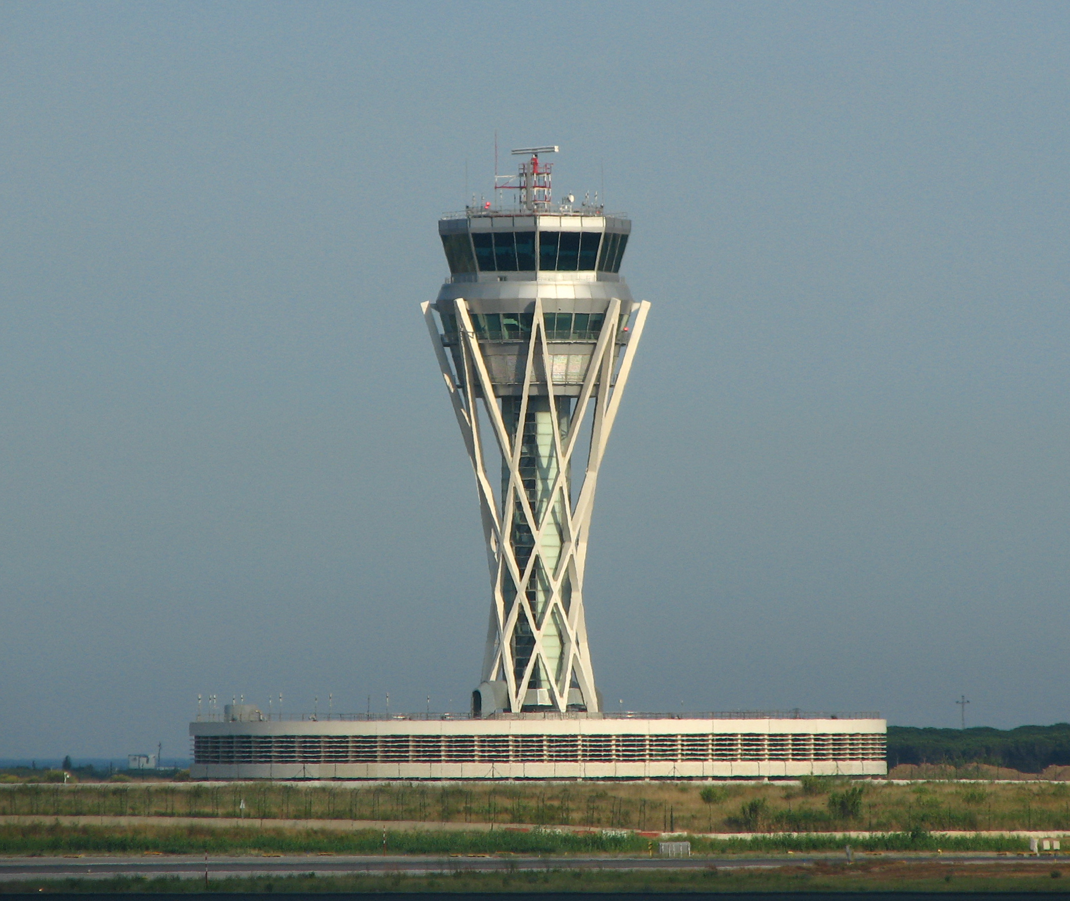 Tower of Barcelona-El Prat airport (BCN/LEBL)